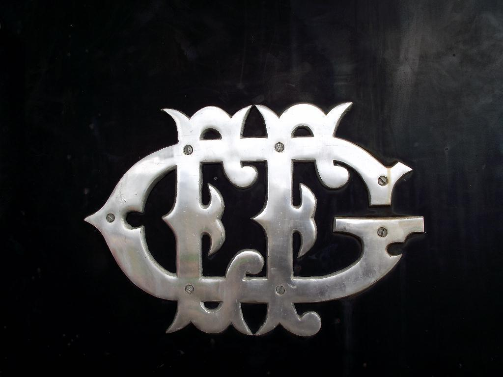 Logo of the Railroad of Goiás.